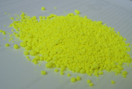 Fluorescent pigment